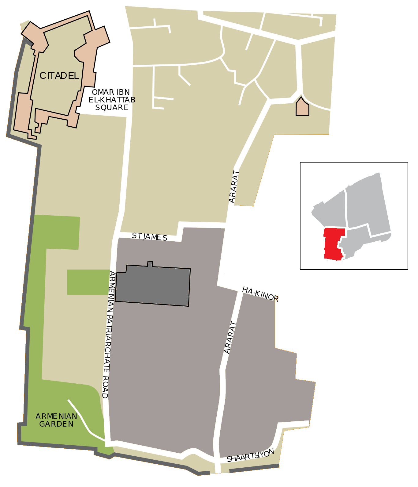 The Armenian Quarter of Jerusalem' based on